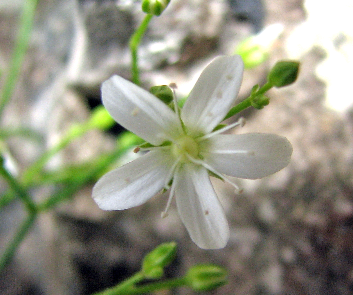 Moehringia bavarica, Gschwendtberg near Frohnleiten, Styria, Austria. About 800m